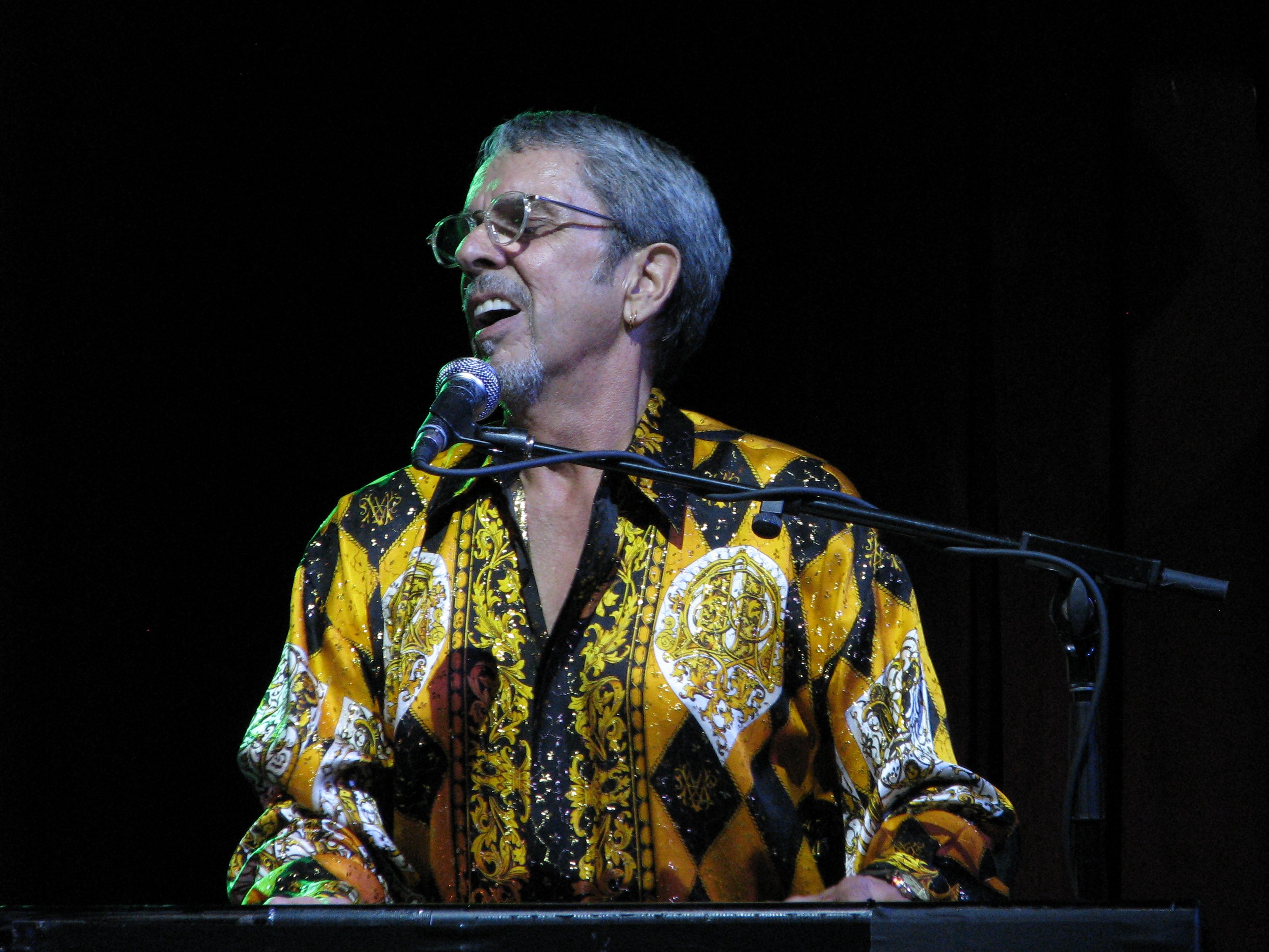 Bobby Whitlock performing at B.B. King Blues Club & Grill, New York City, September 19, 2015